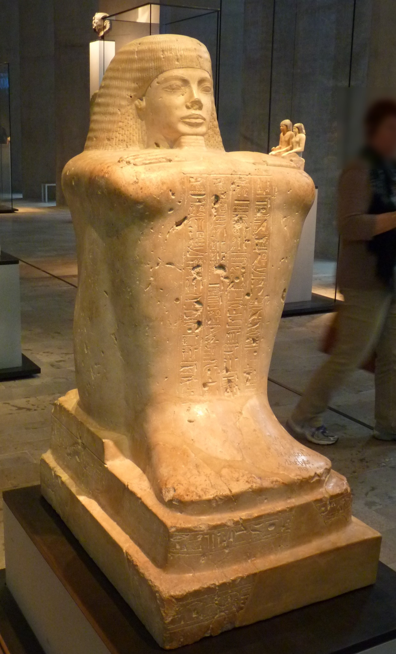 Block statue of the High Priest of Amun Bakenkhonsu. Limestone from Karnak, Thebes, 18th dynasty (circa 1320 BCE) reused in 19th dynasty (circa 1220 BCE), New Kingdom. Munich, Staatliches Museum Ägyptischer Kunst, Gl.WAF 38.